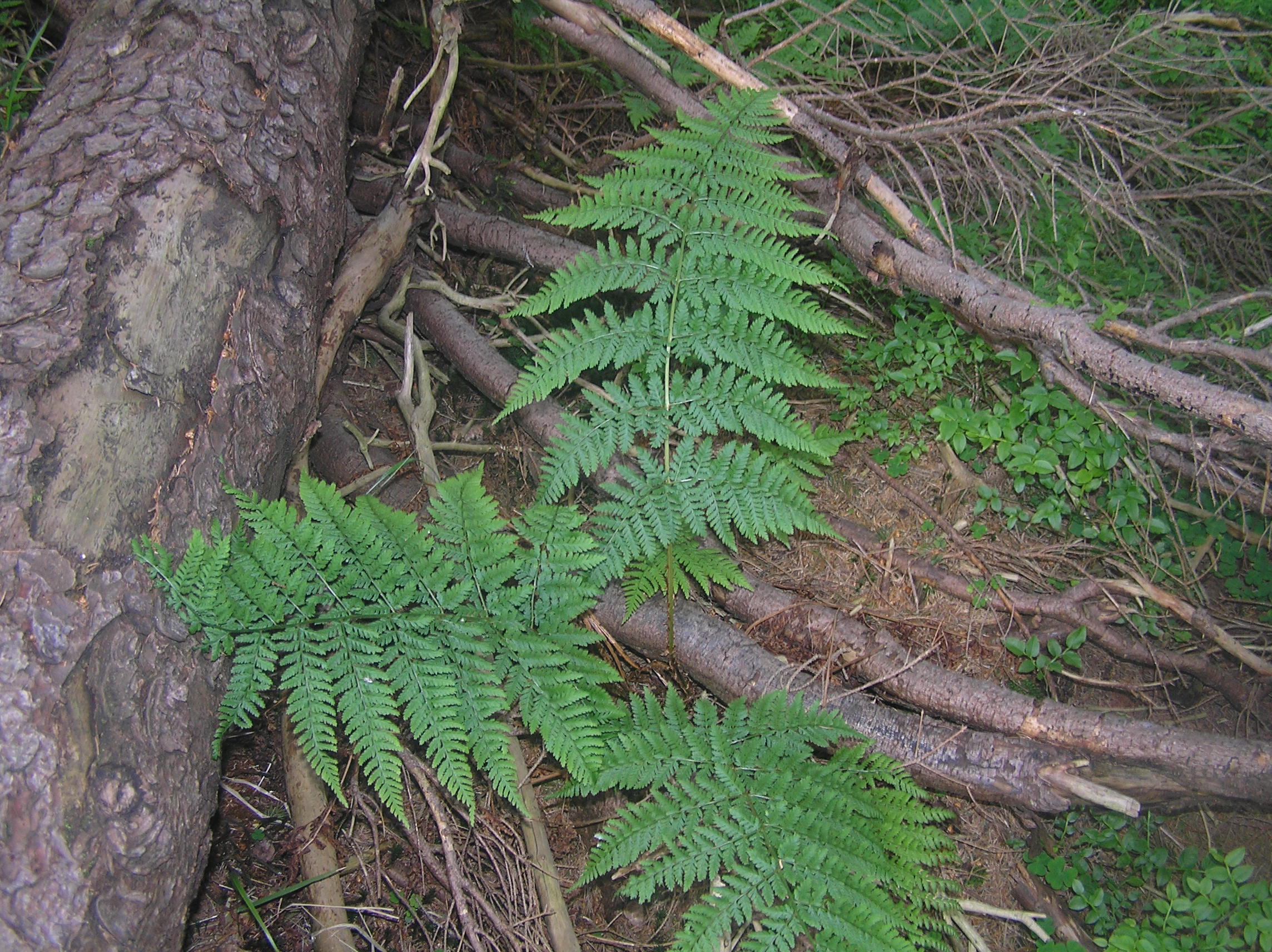 Dryopteris expansa, Králický Sněžník, Czech Republic